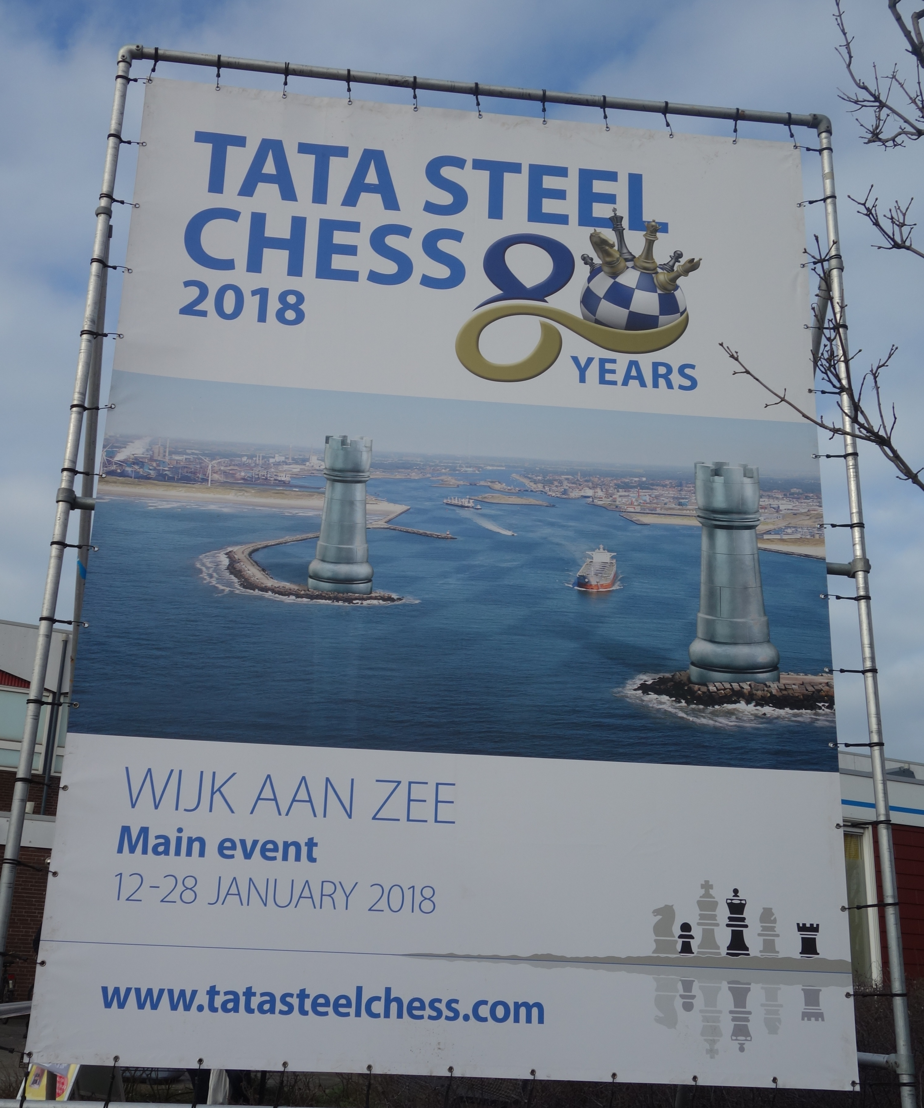 Tata Steel chess tournament 2018